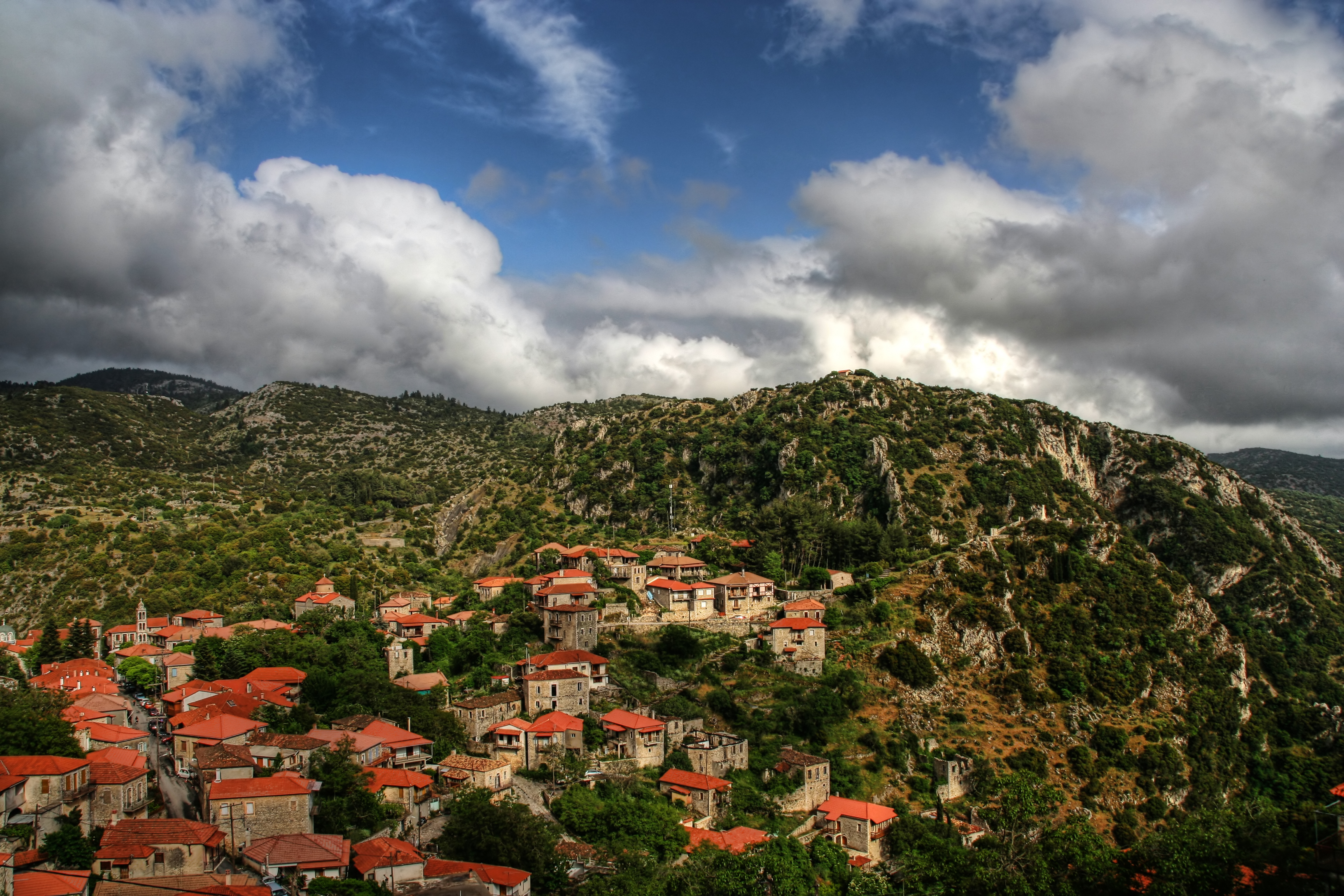 Stemnitsa Arkadia Greece